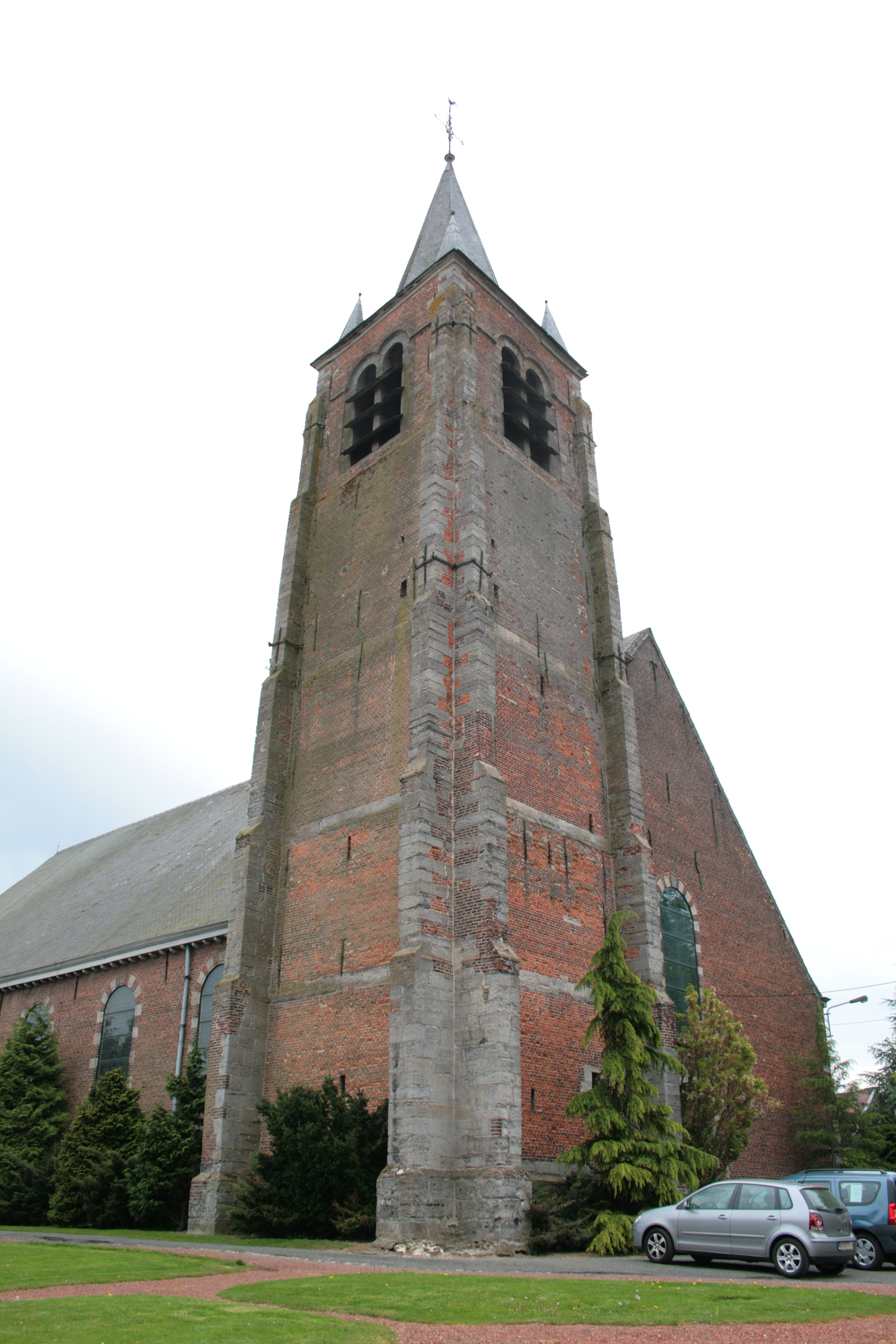 Blandain (Belgium), the church of Saint Eletherius (XVIIIth century) and its square tower dated 1542.